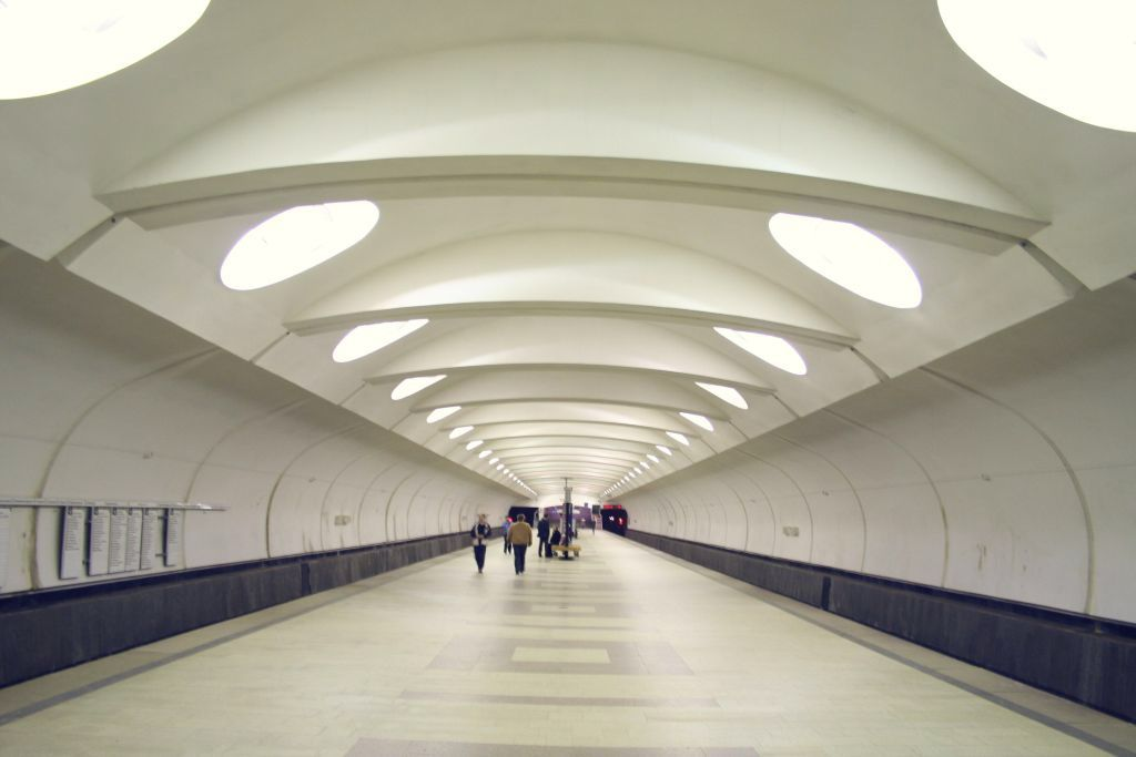 Metro station "Altyfievo" in Moscow